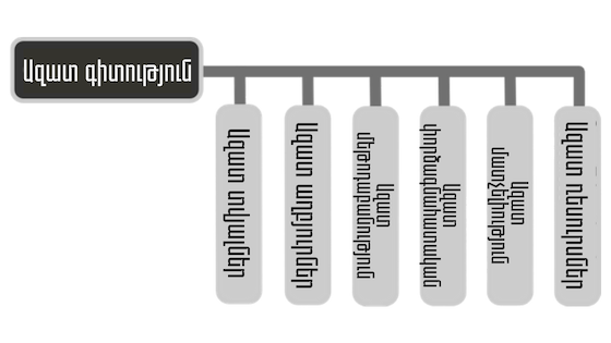 Open Science principals in armenian